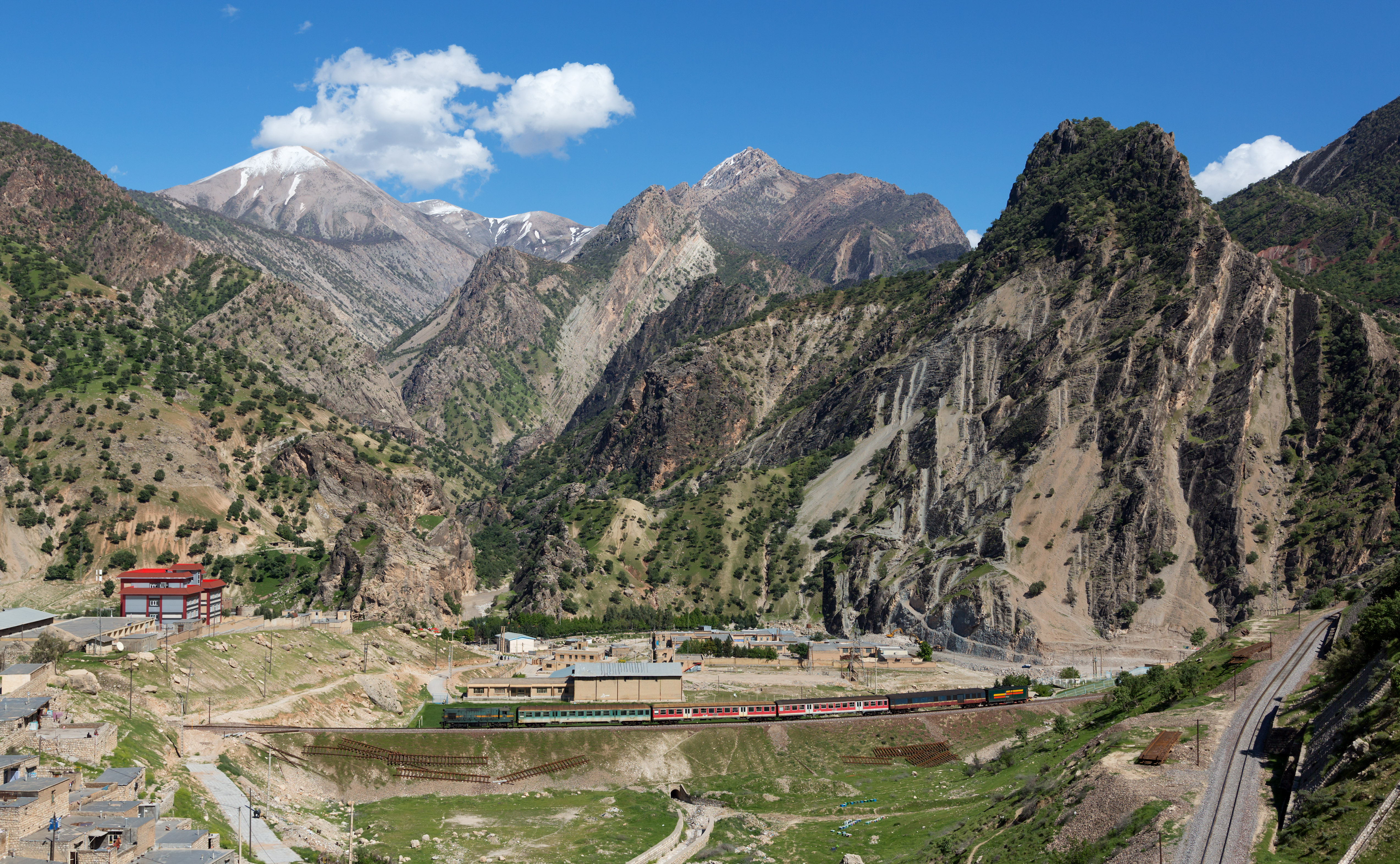 40-12 (EMD G12) of Islamic Republic of Iran Railways hauls a local train from Chamsangar to Dorud. The train consists of former DB Regio "Silberlinge" passenger cars, a baggage car of unknown origin and a US-style boxcar fitted with a diesel generator. Pictured just before entering the loops of Sepid Dasht, Iran.